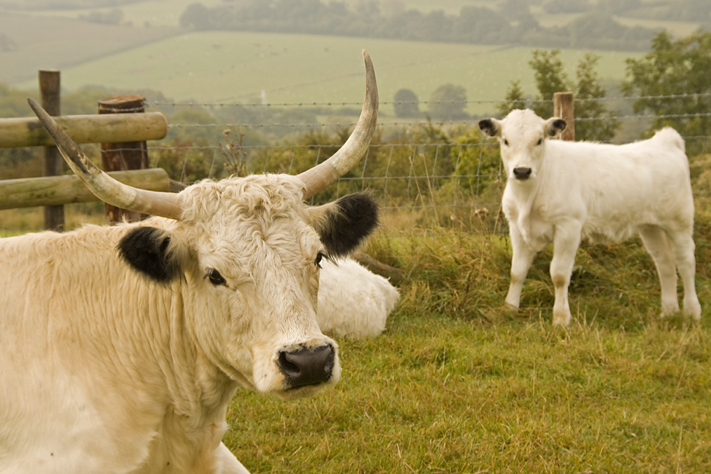 White Park cows with calf on Hambledon Hill, Dorset, England – (the cow has horns, so NOT British White Cattle as stated on flickr)